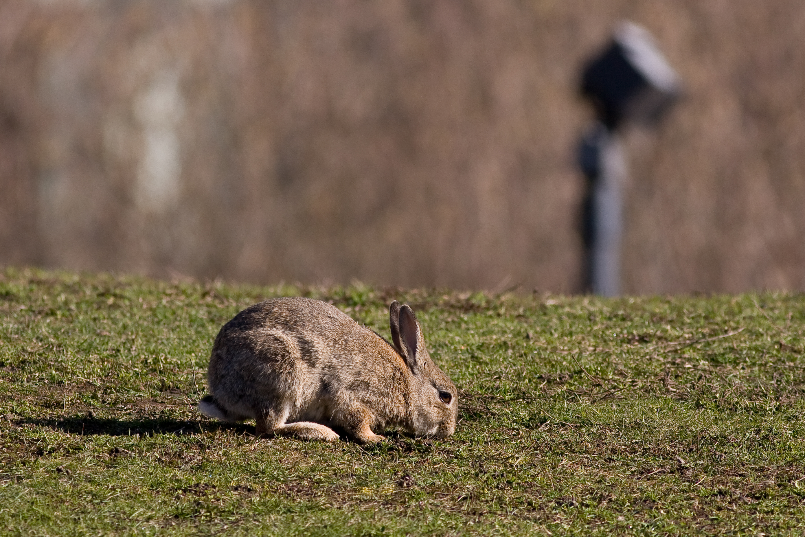 European Rabbit (Oryctolagus cuniculus) near Finnish National Opera in Helsinki. Not a natural species in Finland, an urbanised population has been established in Helsinki area from freed pet rabbits.